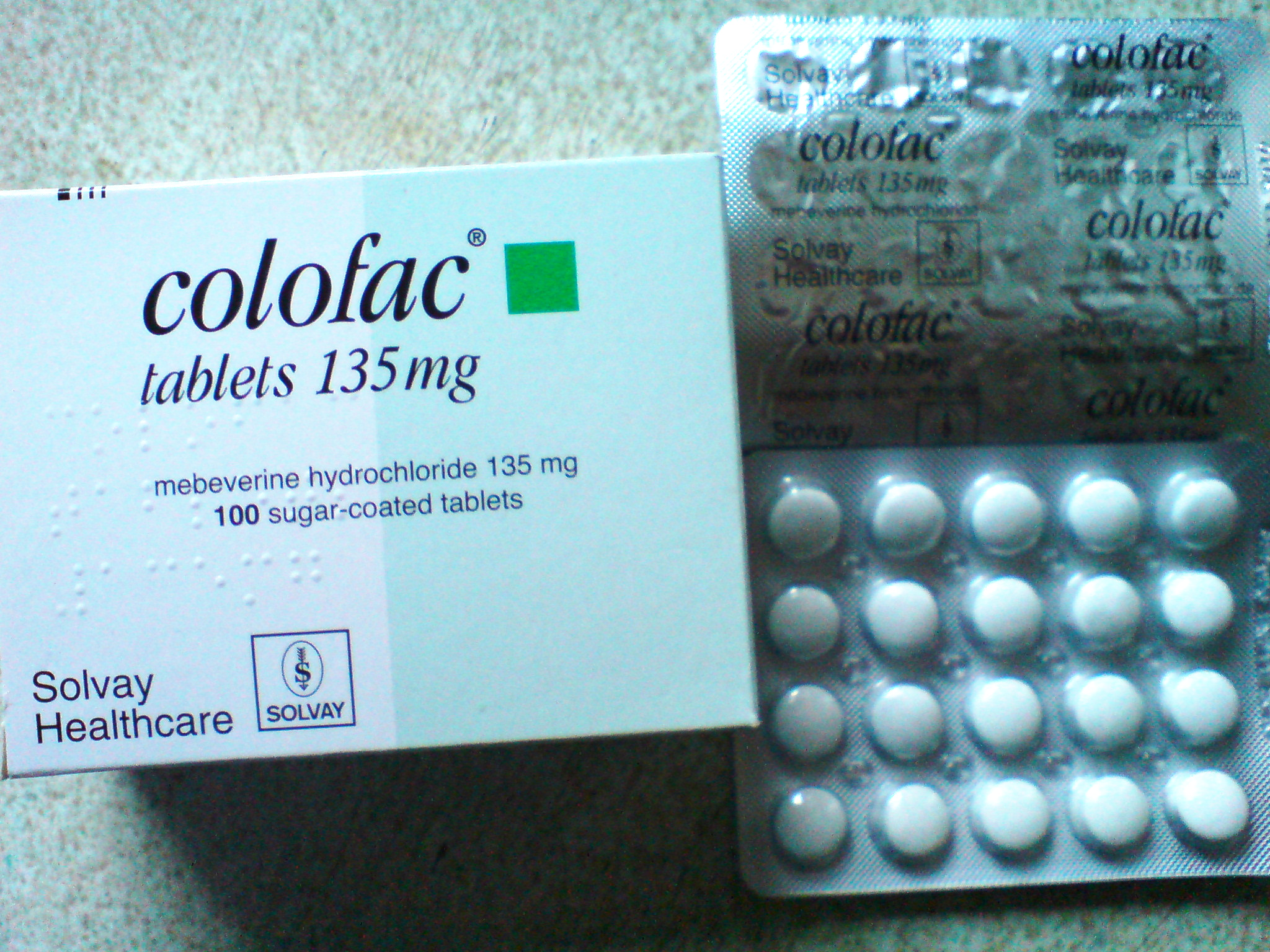 Mebeverine(Colofac) 135mg from UK